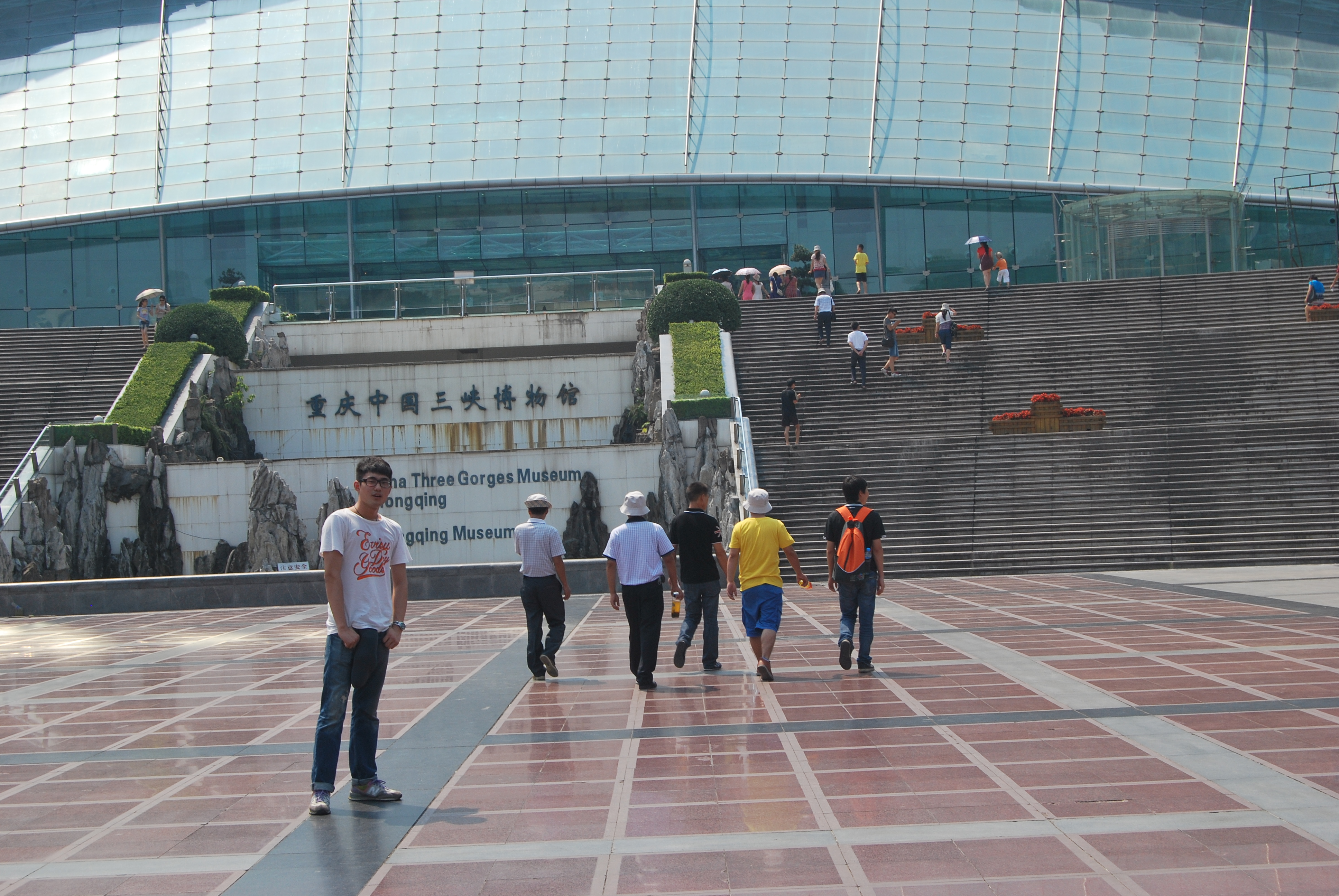 Three Gorges museum tour